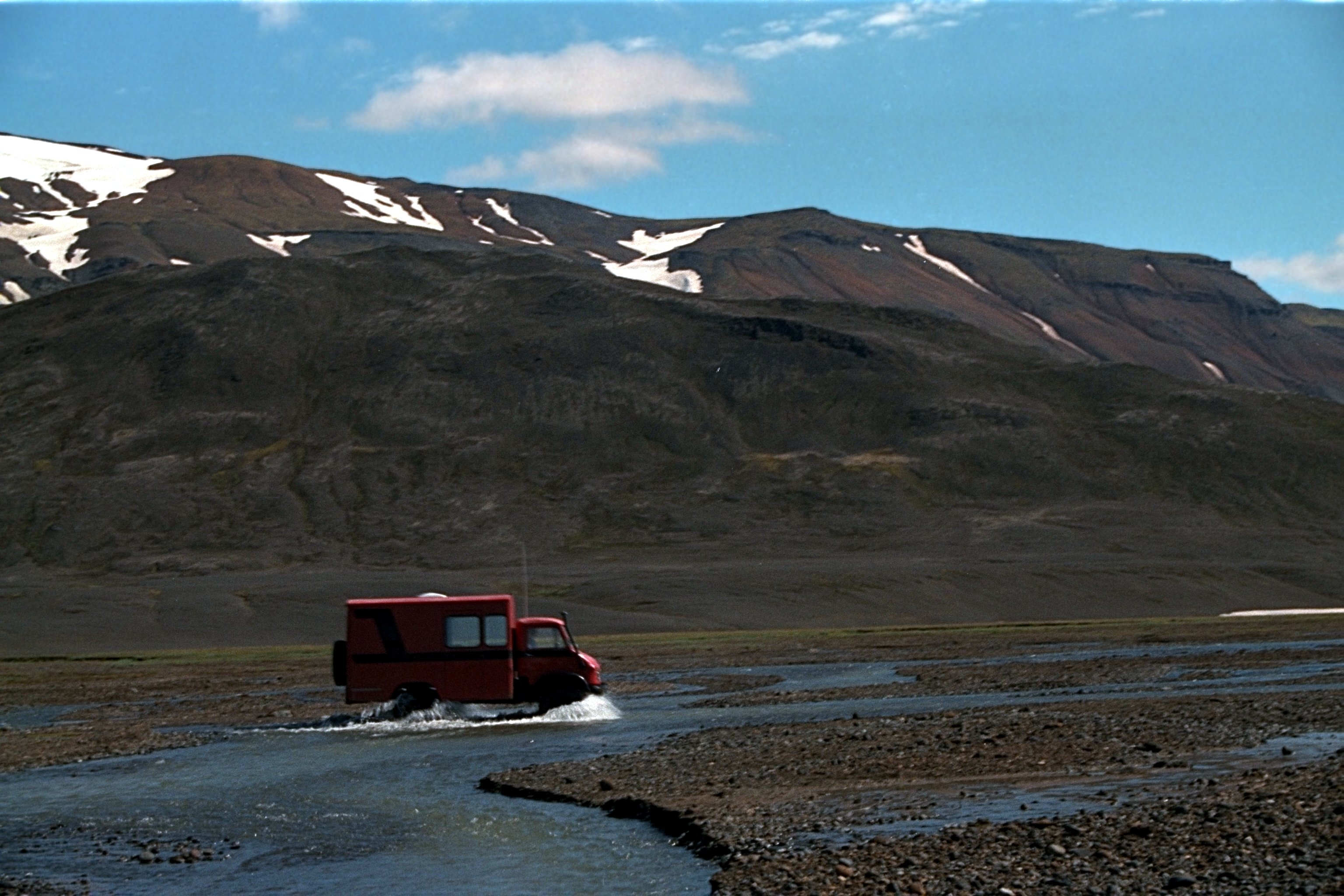 Crossing melted water of the near glacier Tungafellsjökull in Nýidalur at the Sprengisandur highland route, Iceland Photo was taken using the following technique: Film: Print Film Lens: 28-80 Filter: Body: Minolta Dynax 600si Support: Image with Information in English Bild mit Informationen auf Deutsch